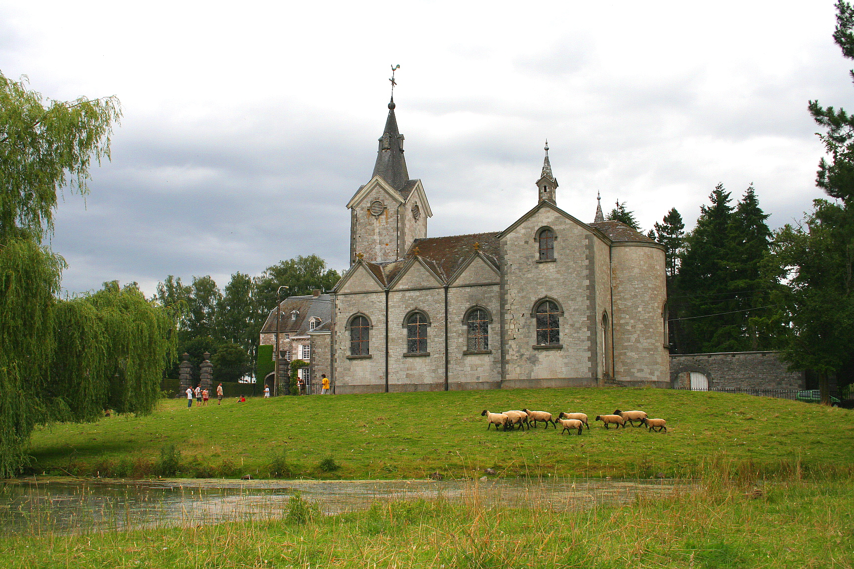 Vervoz (Belgium), the St. Hubertus chapel (1867).